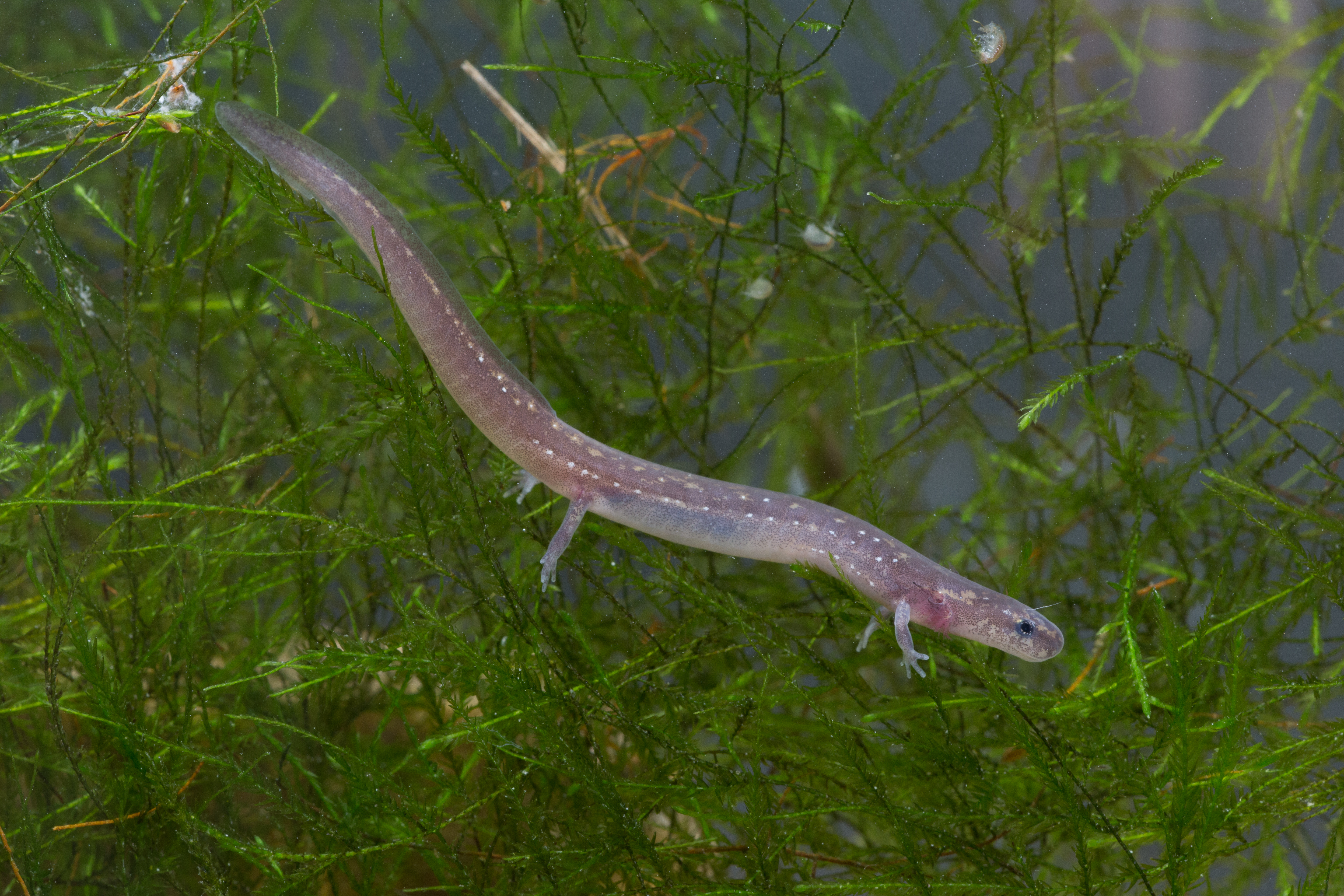 San Marcos salamander (Eurycea nana)